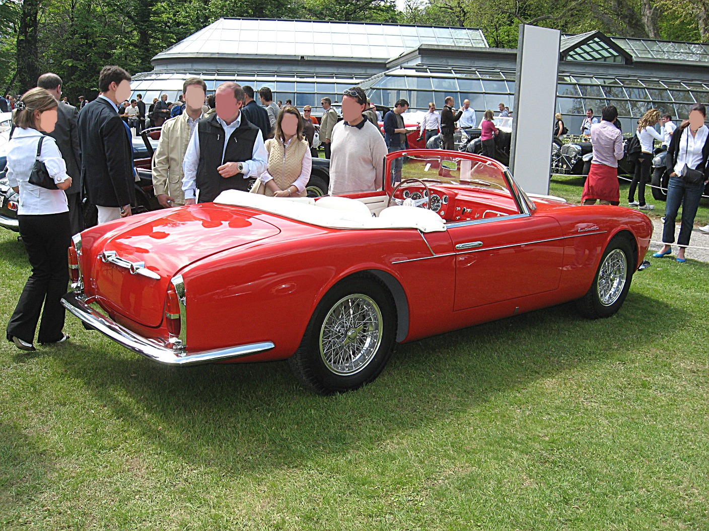 Subject:Maserati A6G54 Cabriolet, coachbuilding by Frua Date:April 27th, 2008 Event:Concorso d’Eleganza”Villa d’Este” 2008 Place/Country: Cernobbio (CO), Italy I release all rights in the public domain.